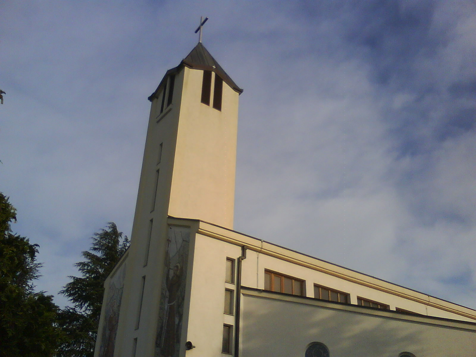 St. Stephen church in Gorica,municipality of Grude